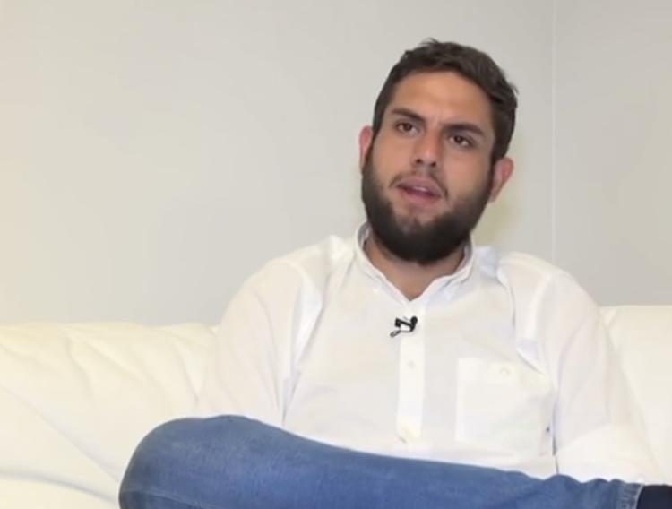 Juan Requesens is interviewed about the Maduro government on July 4, 2017